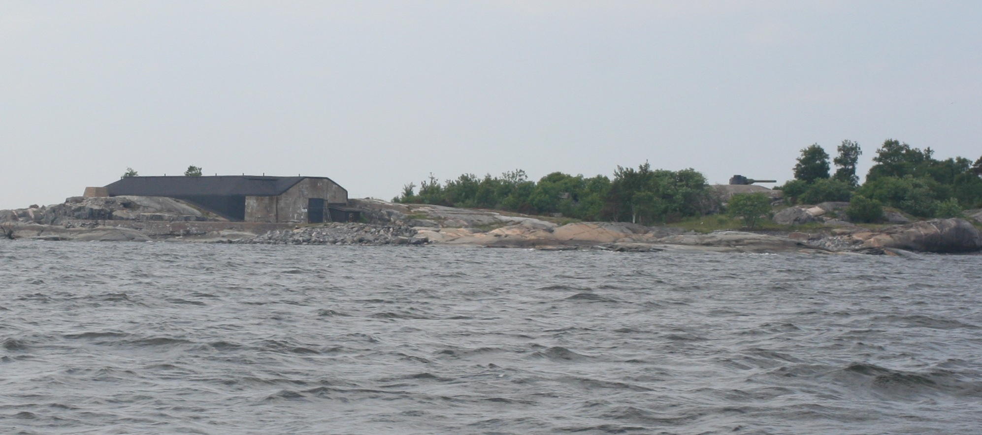 Buildings on Mäkiluoto island, Kirkkonummi, Finland.